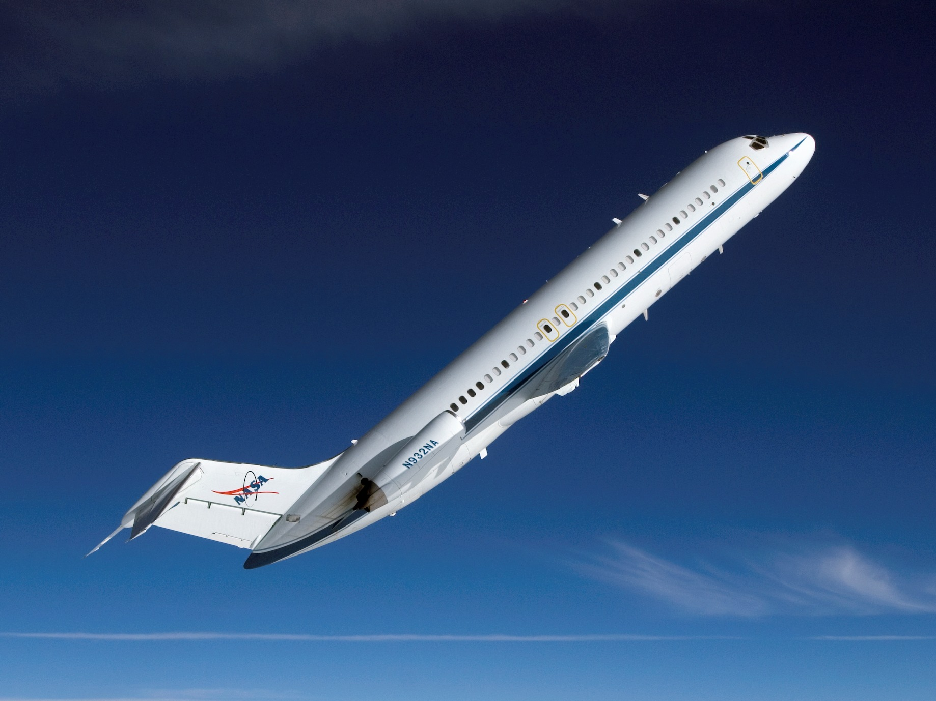 A NASA Douglas DC-9 (C-9B) reduced-gravity aircraft is featured in this image during a parabolic flight photographed from a T-38 aircraft. The aircraft, based at Ellington Field near Johnson Space Center, flies a series of parabola patterns over the Gulf of Mexico to afford opportunities for astronauts and investigators to experience brief periods of weightlessness. The primary mission of the DC-9 is to provide NASA and government microgravity researchers the platform to perform their research in a reduced gravity environment. The aircraft is also utilized for Heavy Aircraft Training (HAT) for astronaut pilots, support the movement of the shuttle from landing sites in California and New Mexico back to Kennedy Space Center, Trans-Atlantic Landing support and the Emergency Mission Control Move mission.